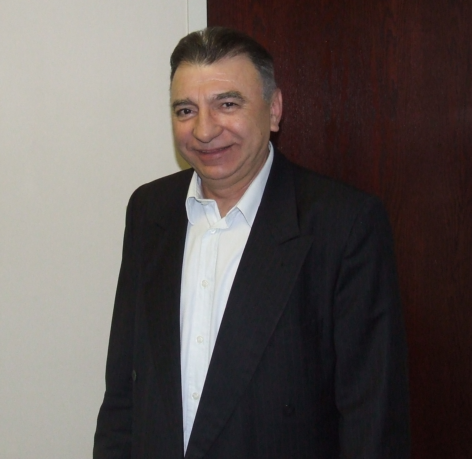 Actor from Vojvodina, Serbia, Milenko Pavlov in his Tour in Canada